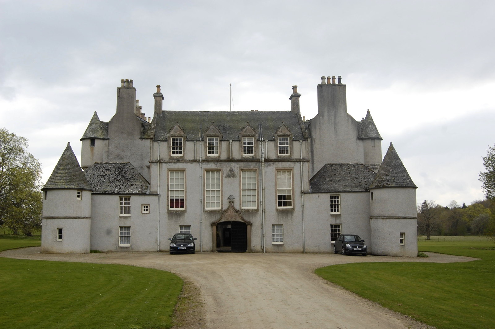 Leith Hall (rear elevation) For its history